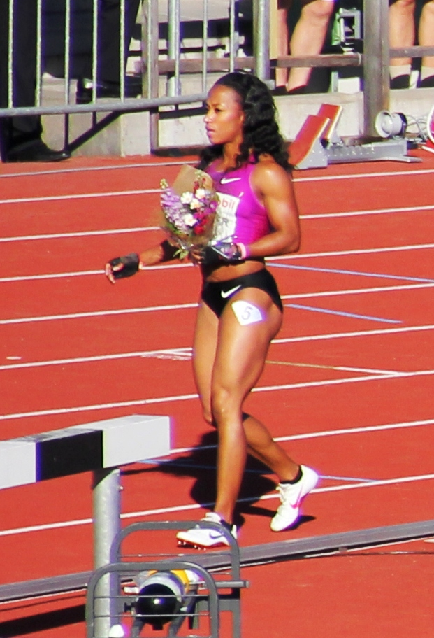 Mikele Barber, winner of the 100 meter at Bislett Games 2010